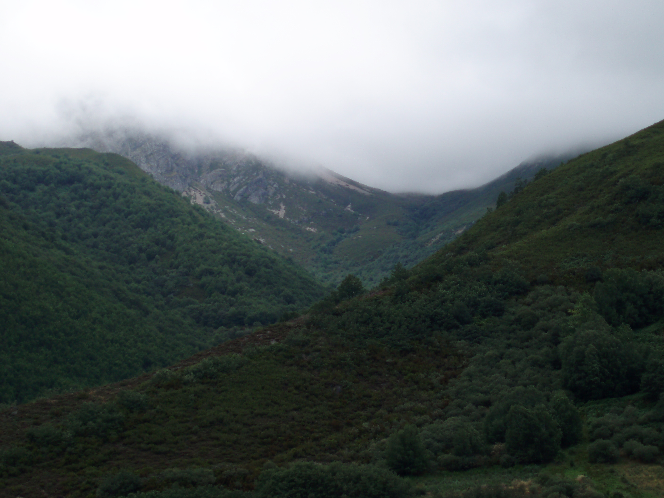 Photo of the mountains of Chano, Fornela Valley, León (Spain)